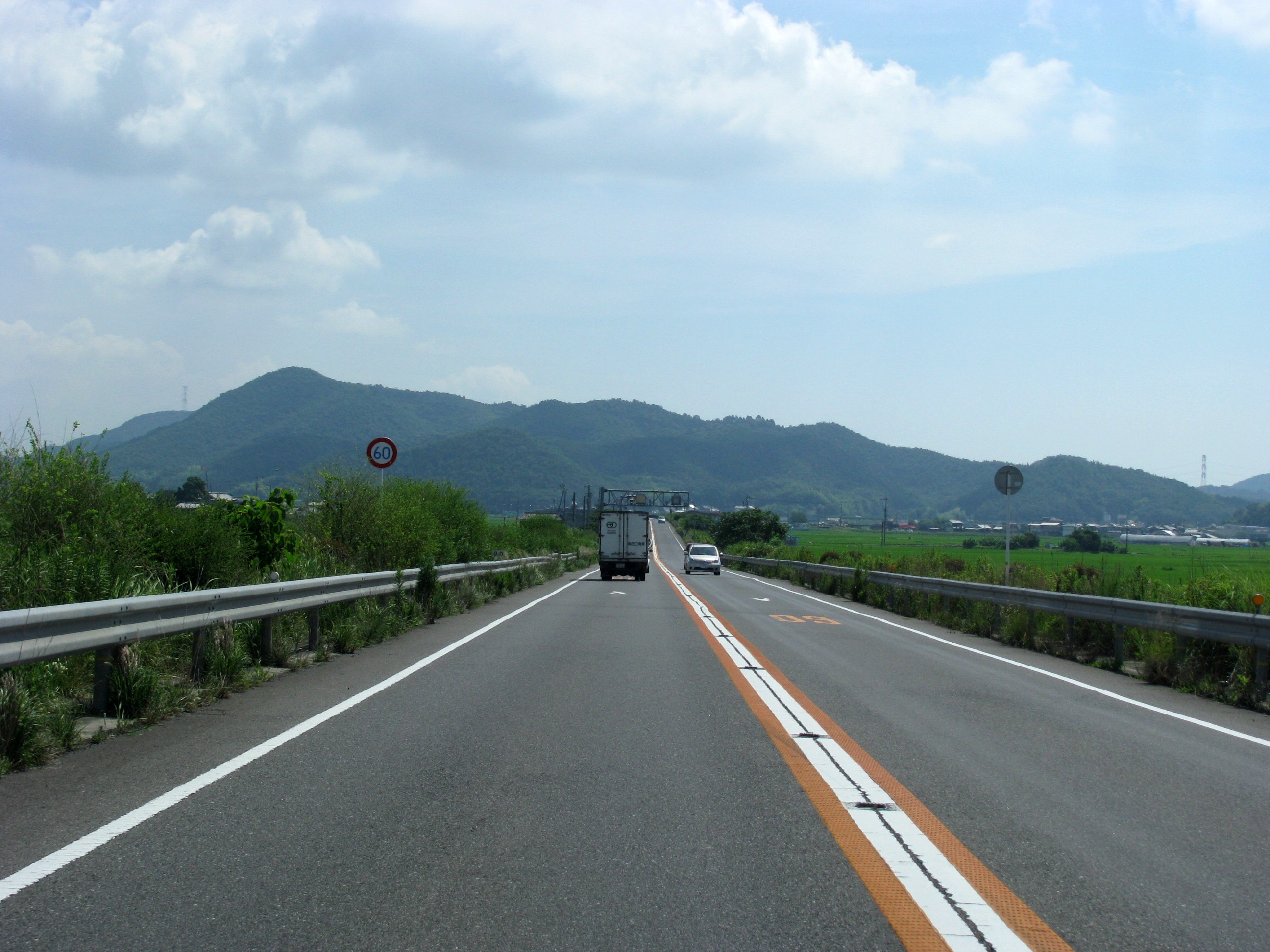 The Okayama Prefectural Route 397 (Okayama Blue Line). This place is Setouchi, Okayama, Okayama, Japan.